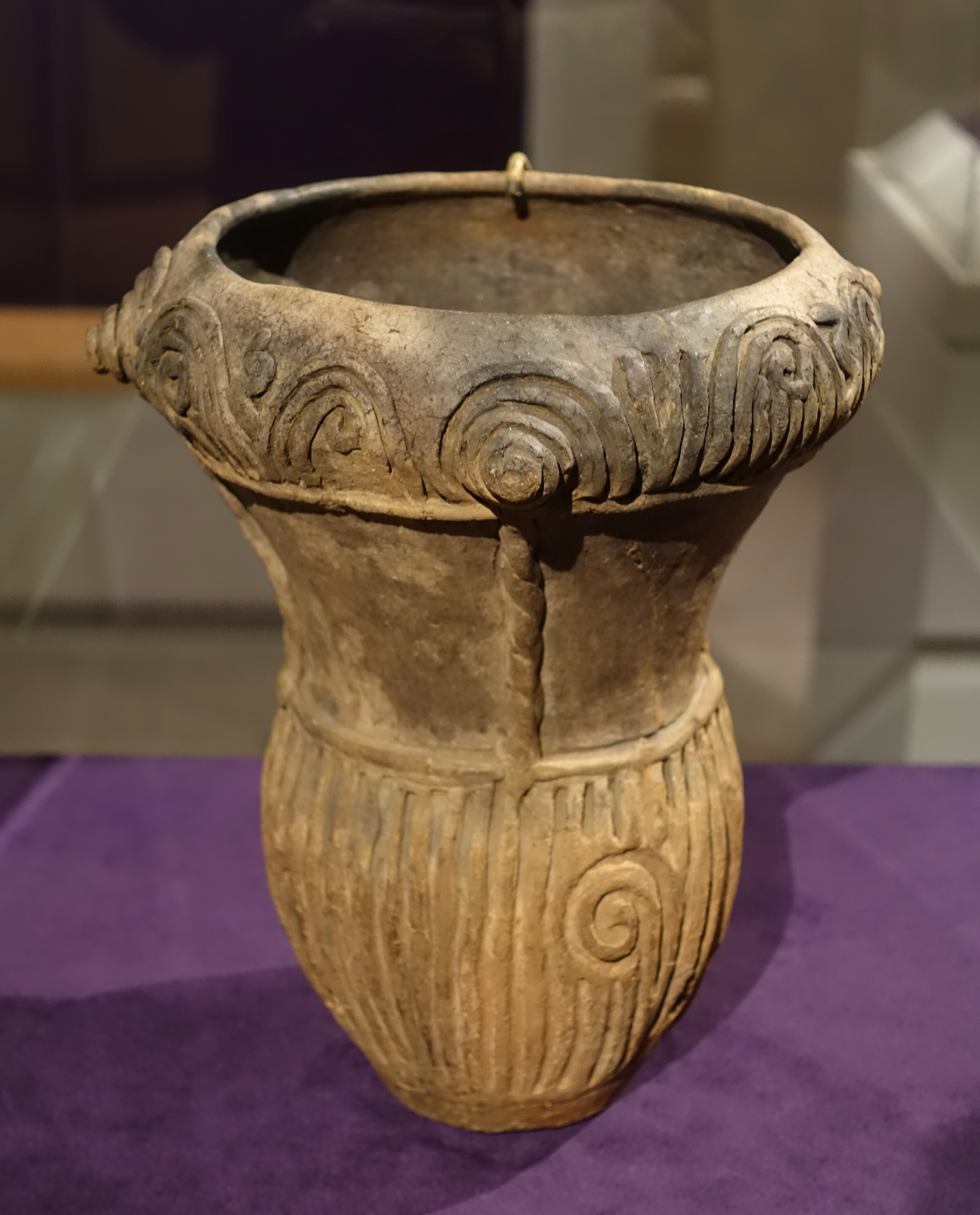 Exhibit in the Princeton University Art Museum - Princeton University, Princeton, New Jersey, USA.